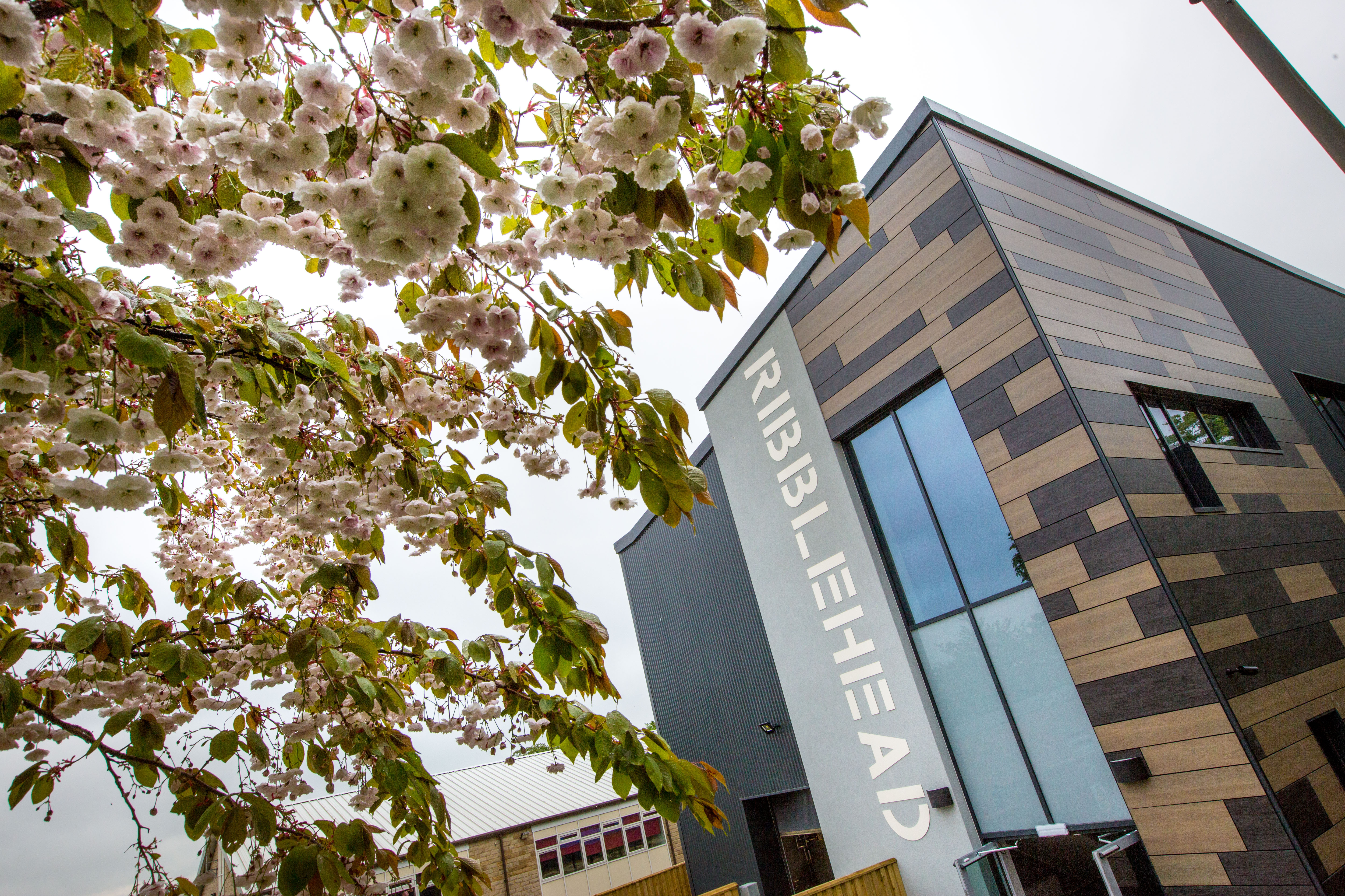 Ribblehead - Construction Building